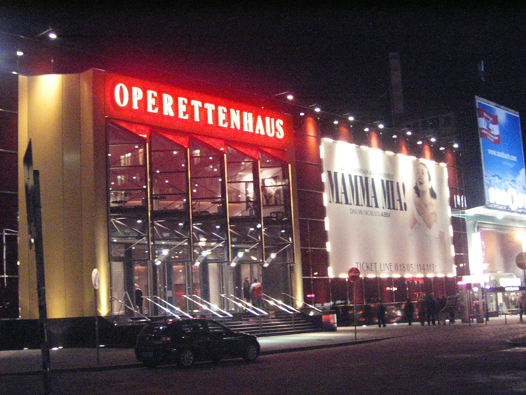 Operettenhaus Hamburg/Germany including "Mamma Mia"-Advertising